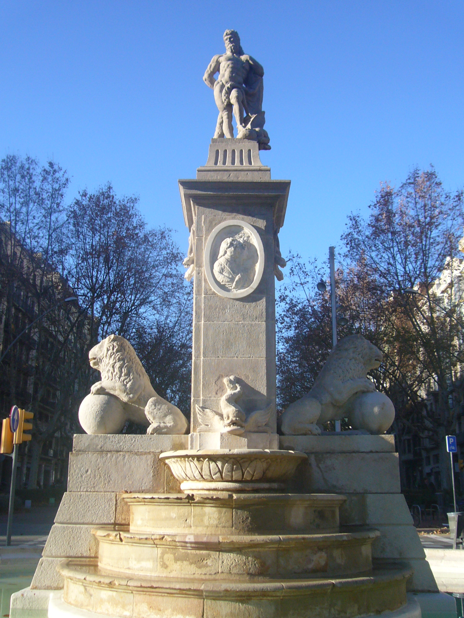 Hercules fountain, located at the Passeig de Sant Joan in Barcelona. It is the oldest fountain in Barcelona. Author Salvador Gurri (1802)